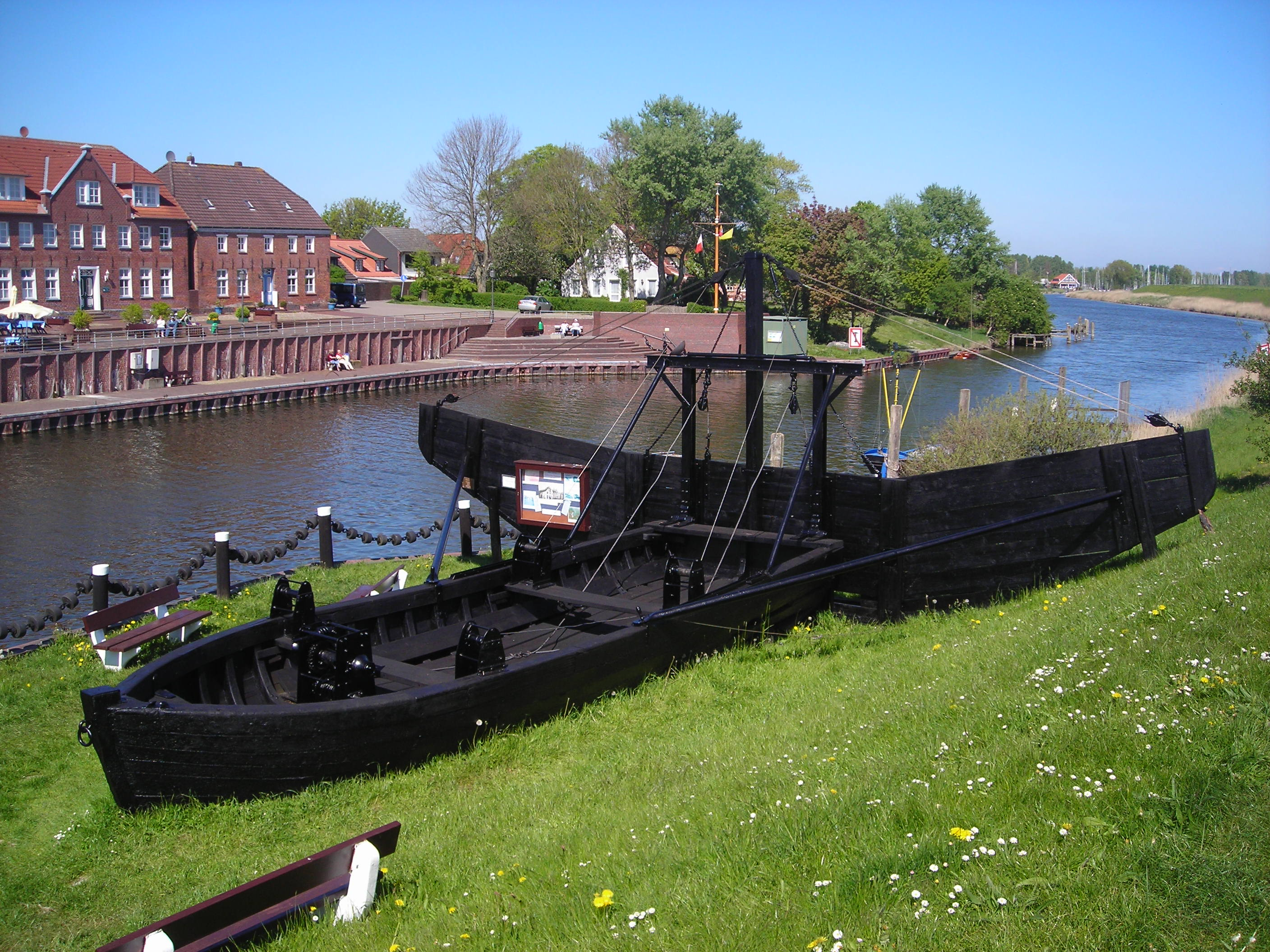 A "mudderboot" formerly used as a special type of dredge to clear narrow waterways especially in muddy areas. Photo taken at Hooksiel, Germany